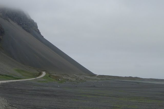 Route 1, East Iceland